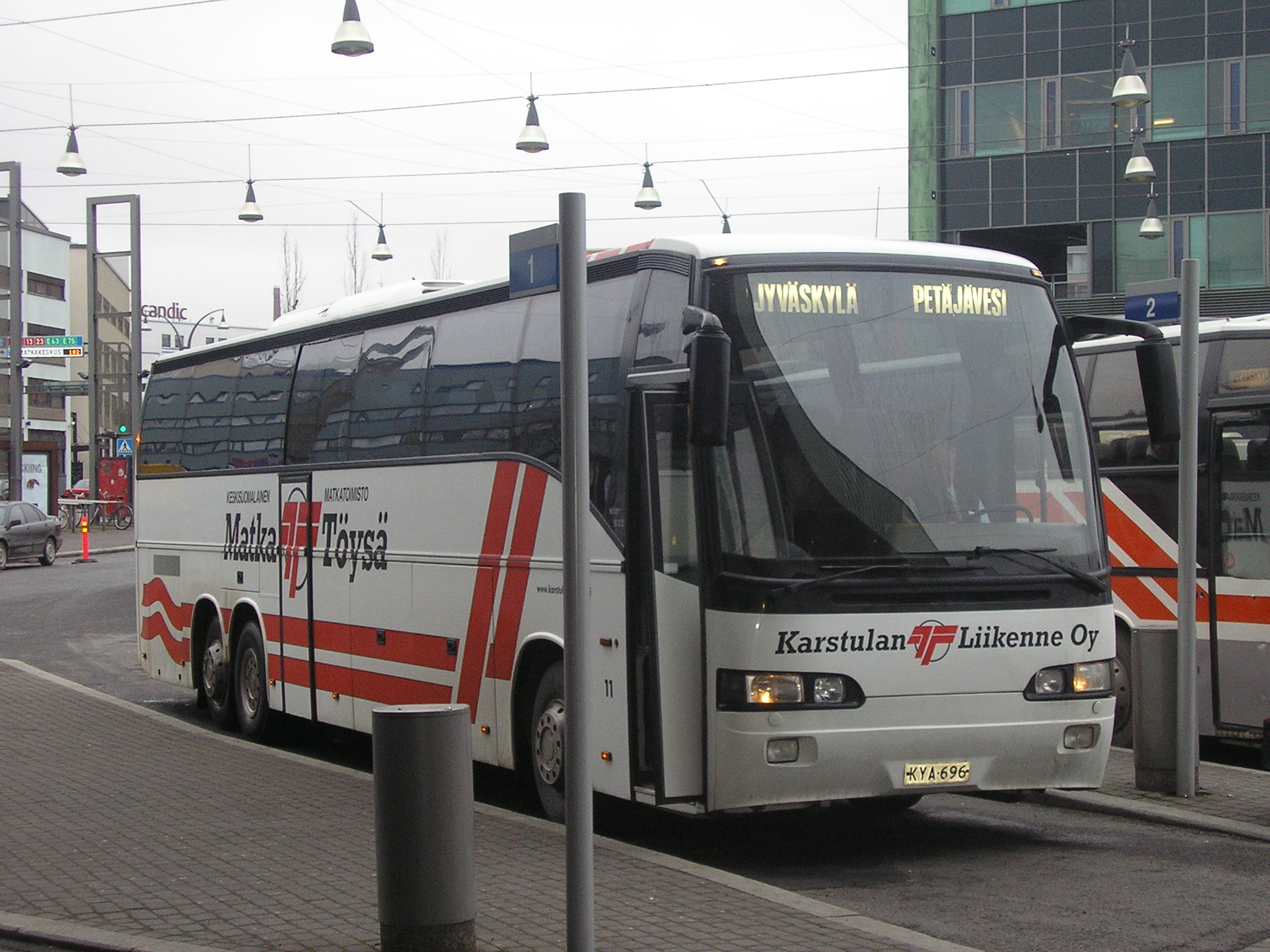 Karstulan Liikenne Volvo B12/Carrus Star 602 (no. 111, KYA-696, 7/1999) in Jyväskylä, Finland.